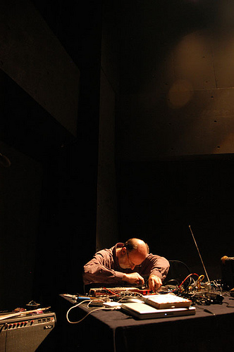 Keith Rowe performing solo at the AMPLIFY 2008 festival, Kid Ailack Art Hall, Tokyo